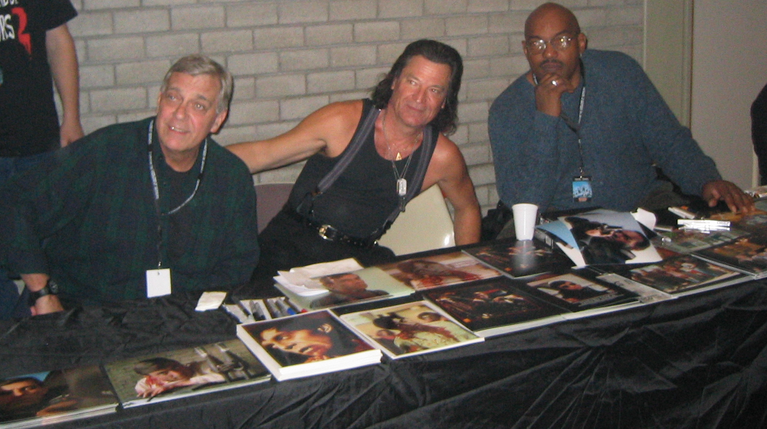 Three actors from the movie Dawn of the Dead (1978). From left to right: David Emge, Joseph Pilato, Ken Foree.